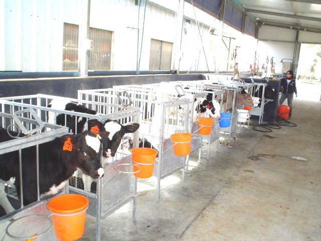 Holstein calves in individual cages. Revivim, Israel.